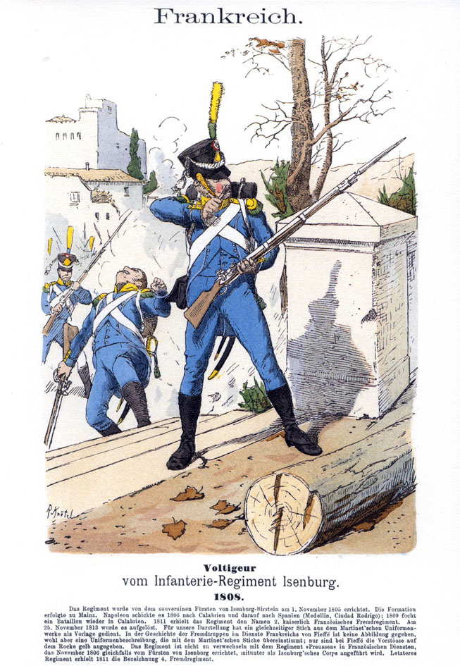 Frankreich. Voltigeur vom Infanterie-Regiment Isenburg. 1808